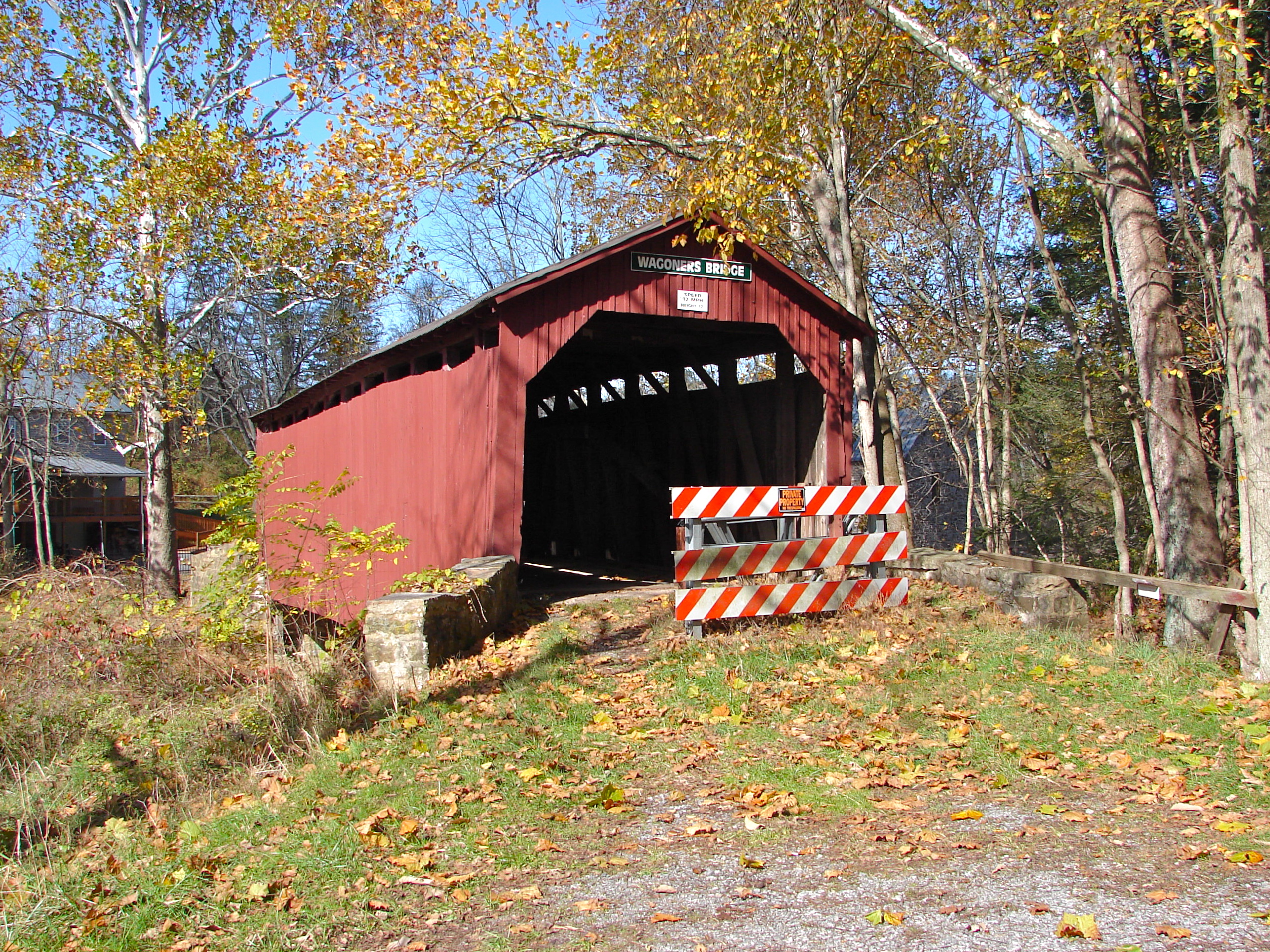 Waggoner Covered Bridge on the NRHP since August 25, 1980. West of Loysville on Township 579 (nominally Wagoneers Road - but it is just a turnoff of PA 274, now Private property starting at the bridge). In Northeast Madison Township, Perry County, Pennsylvania. Interior used as a storage shed. Covered Bridge number 38-50-15. Built 1889, 74 feet in length, Burr arch.